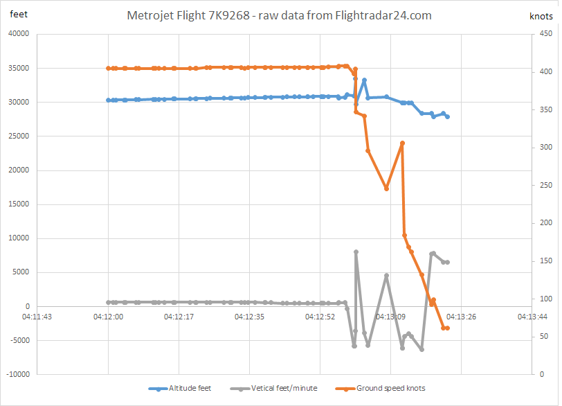 Parameters of flight 7K-9268 in several last seconds, according to unfiltered data from FlightRadar24 Part of data is unreliable, according to Flight radar 24 analysis - "we consider the altitude values to be unreliable. .. True Airspeed (TAS) is a pressure-derived value and may be unreliable"